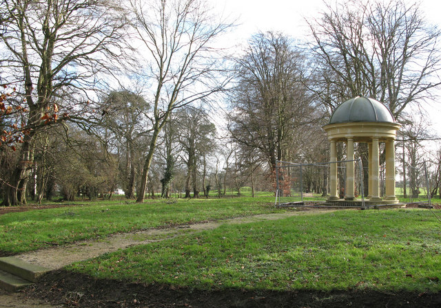 Temple Folly, Santry Desmesne, Santry, Dublin, Ireland Another restored folly in Santry Desmesne, formerly part of the estate lands of Santry Court House, accidentally burnt down during WWII